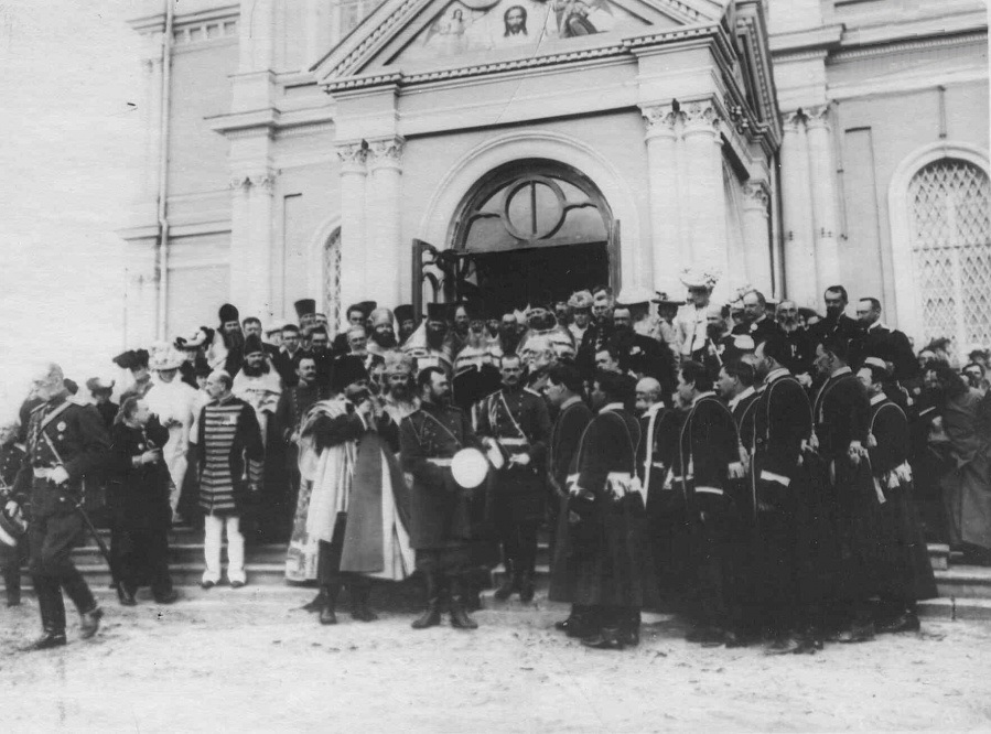 Church of the Epiphany at the Kremlin (Tula, Russia)